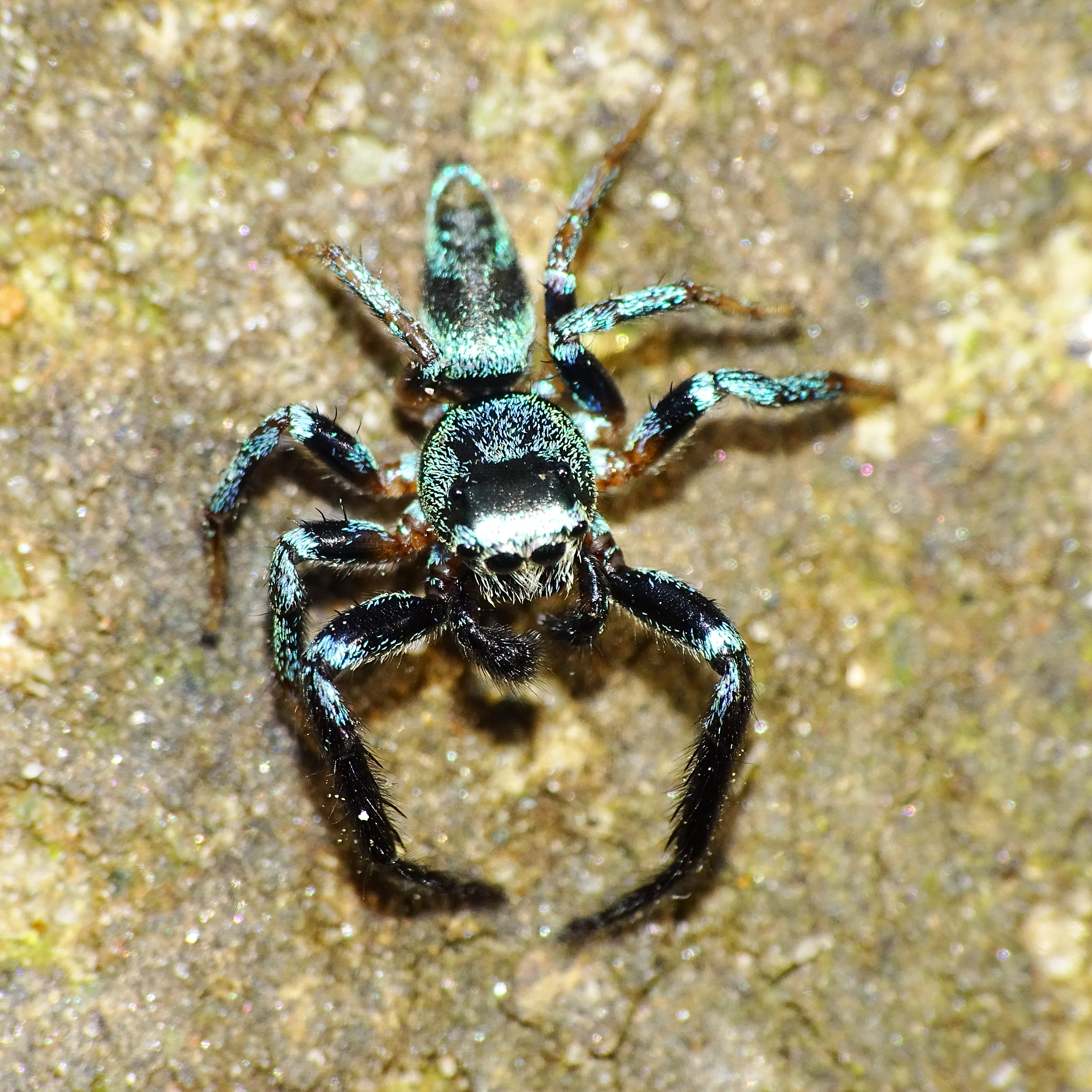 Thiania bhamoensis. From Ezhupunna